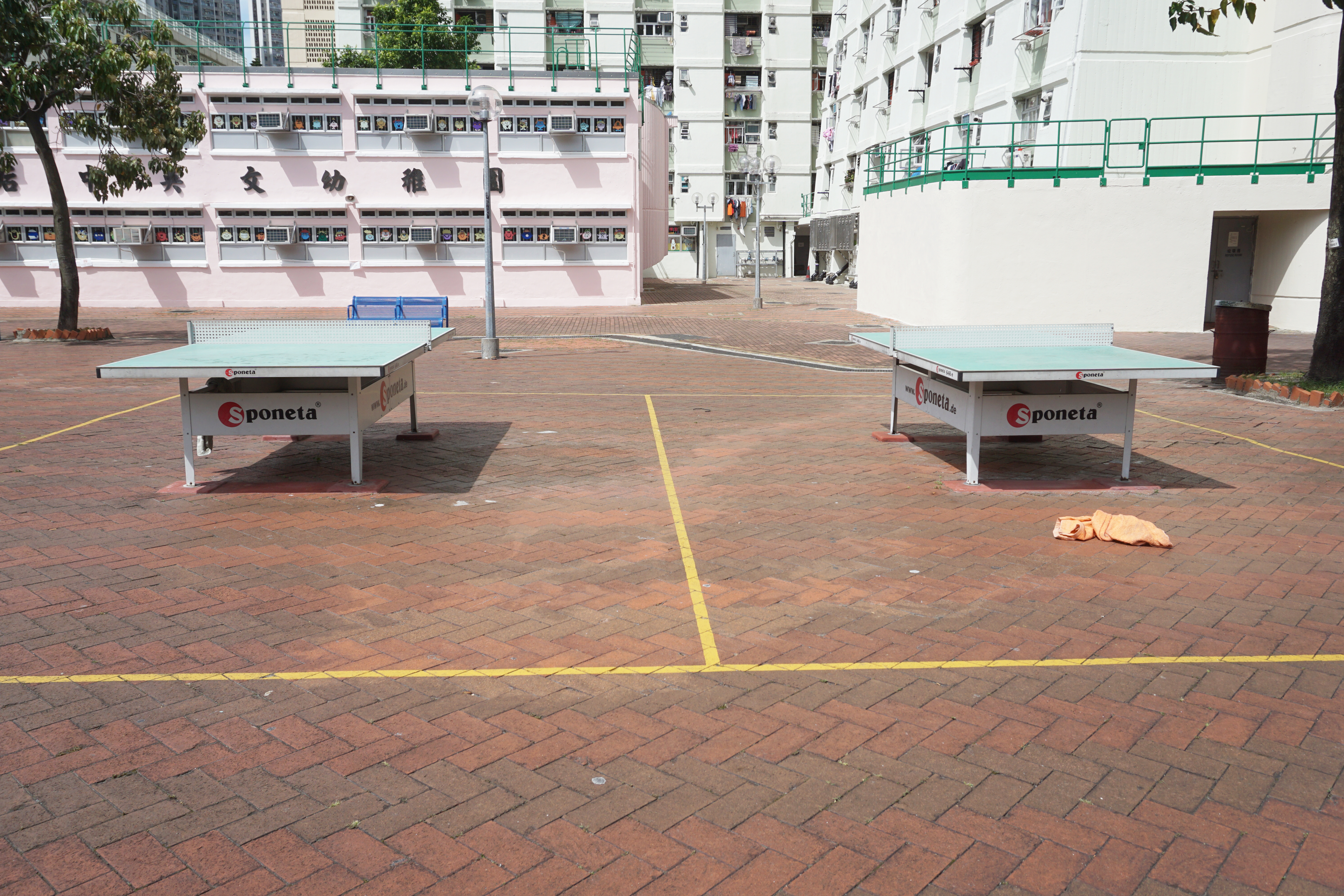 Tai Hing Estate in Tuen Mun, Hong Kong.